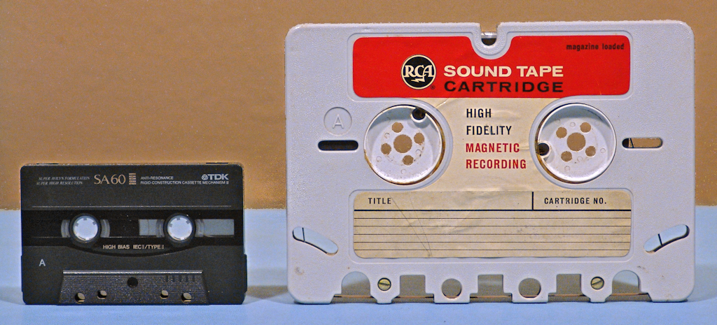 RCA quarter-inch tape cartridge, shown with standard compact cassette for size comparison. (Version with minor modifications as described below)